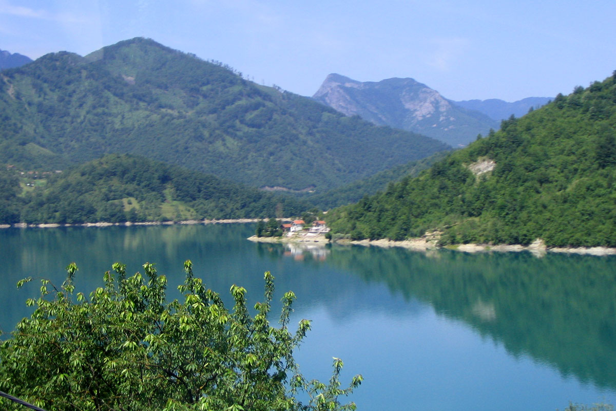 Jablanica lake